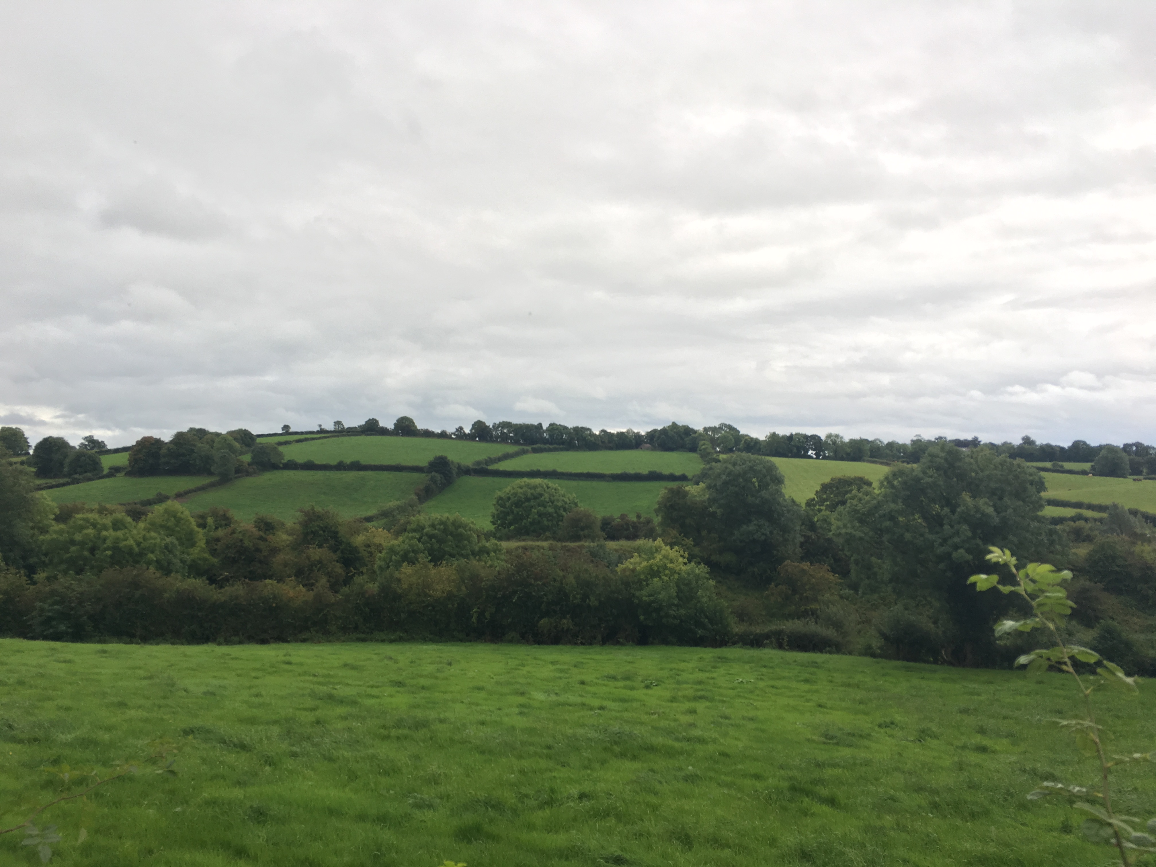 Railway embankment outside Magherabeg